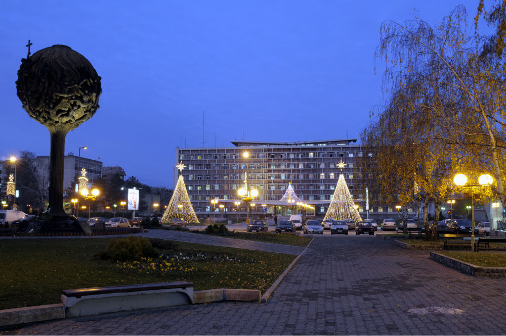 Night viev on City Hall Kragujevac